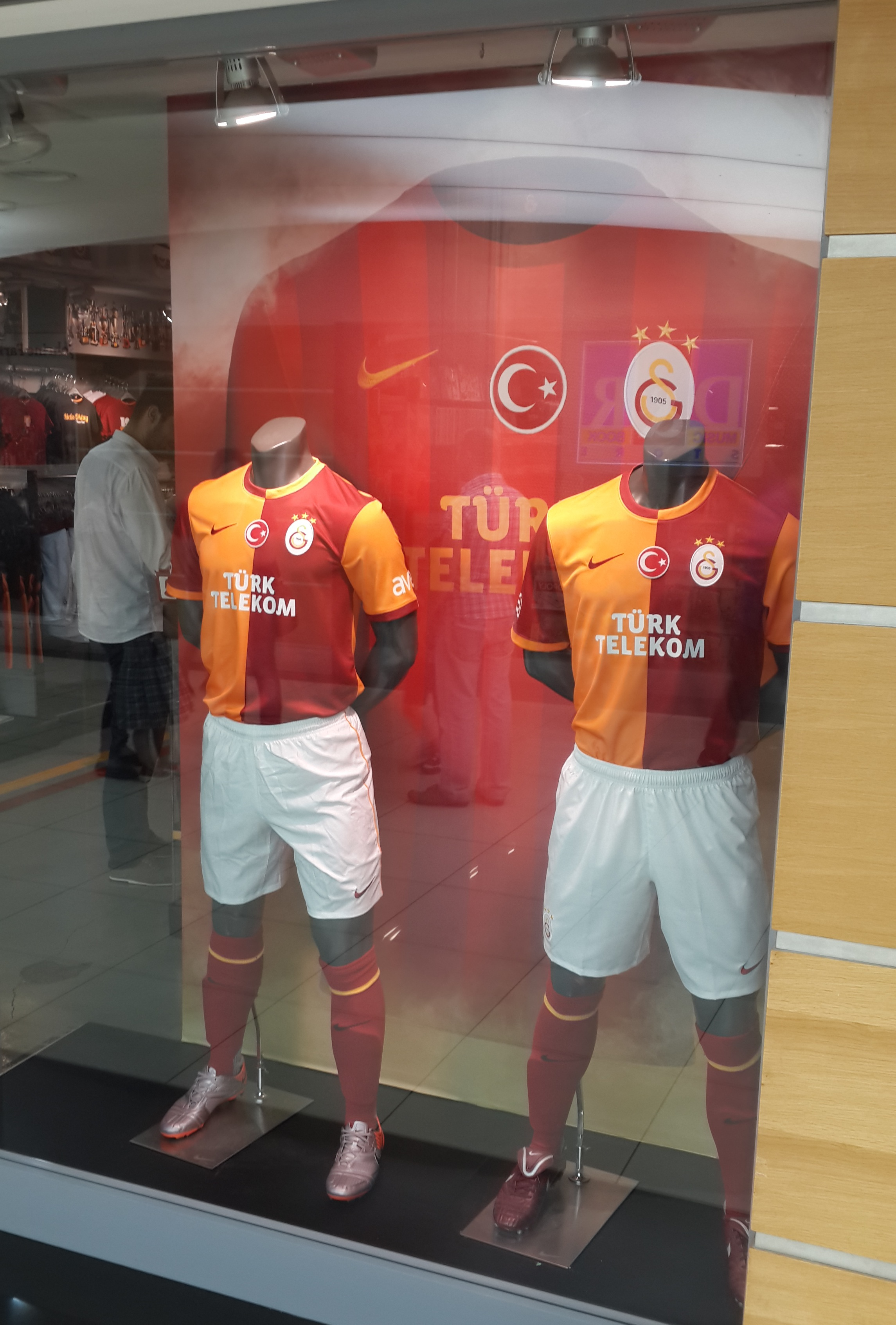 Galatasaray STORE 2013 vitrini